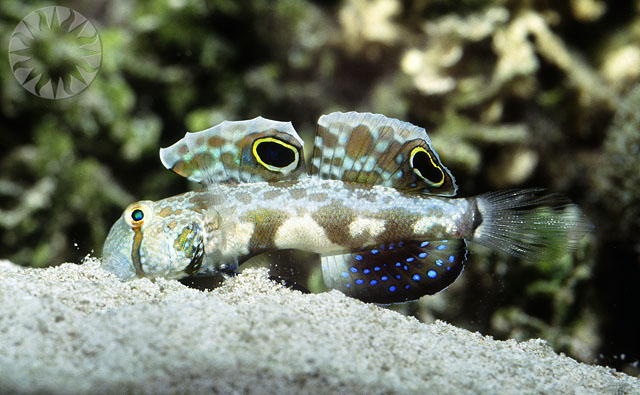 Signigobius biocellatus, fish of the Indo-Pacific Coral Reef Ecosystem National Museum of Natural History. Fish species: Signigobius biocellatus Twin Spot Goby Cruises along the bottom gulping in mouthfuls of sand and straining out bits of food. Photo by: Carl C. Hansen Neg # 96-10758